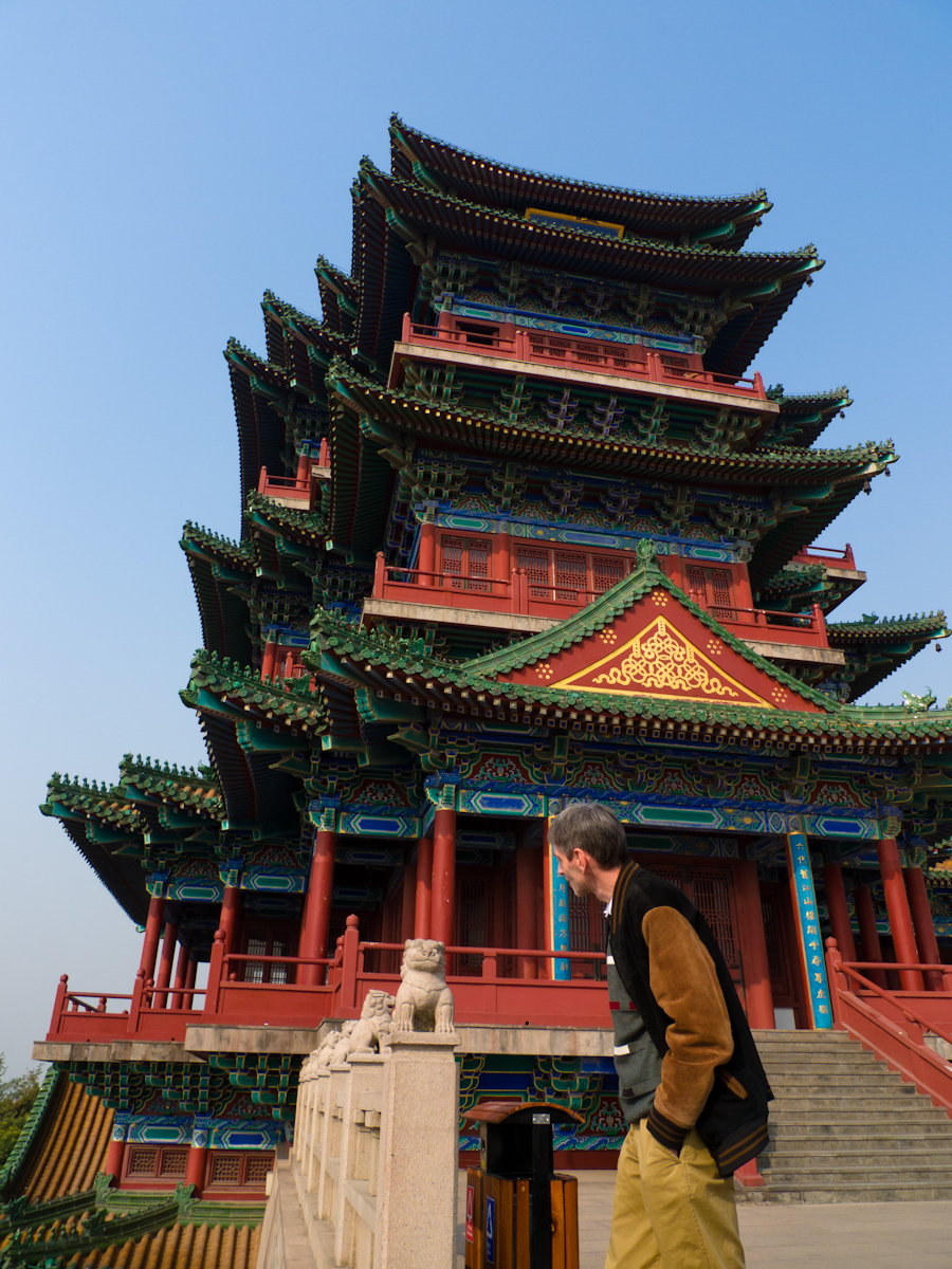 25 Nov., noon: Yuejanglou Scenic area